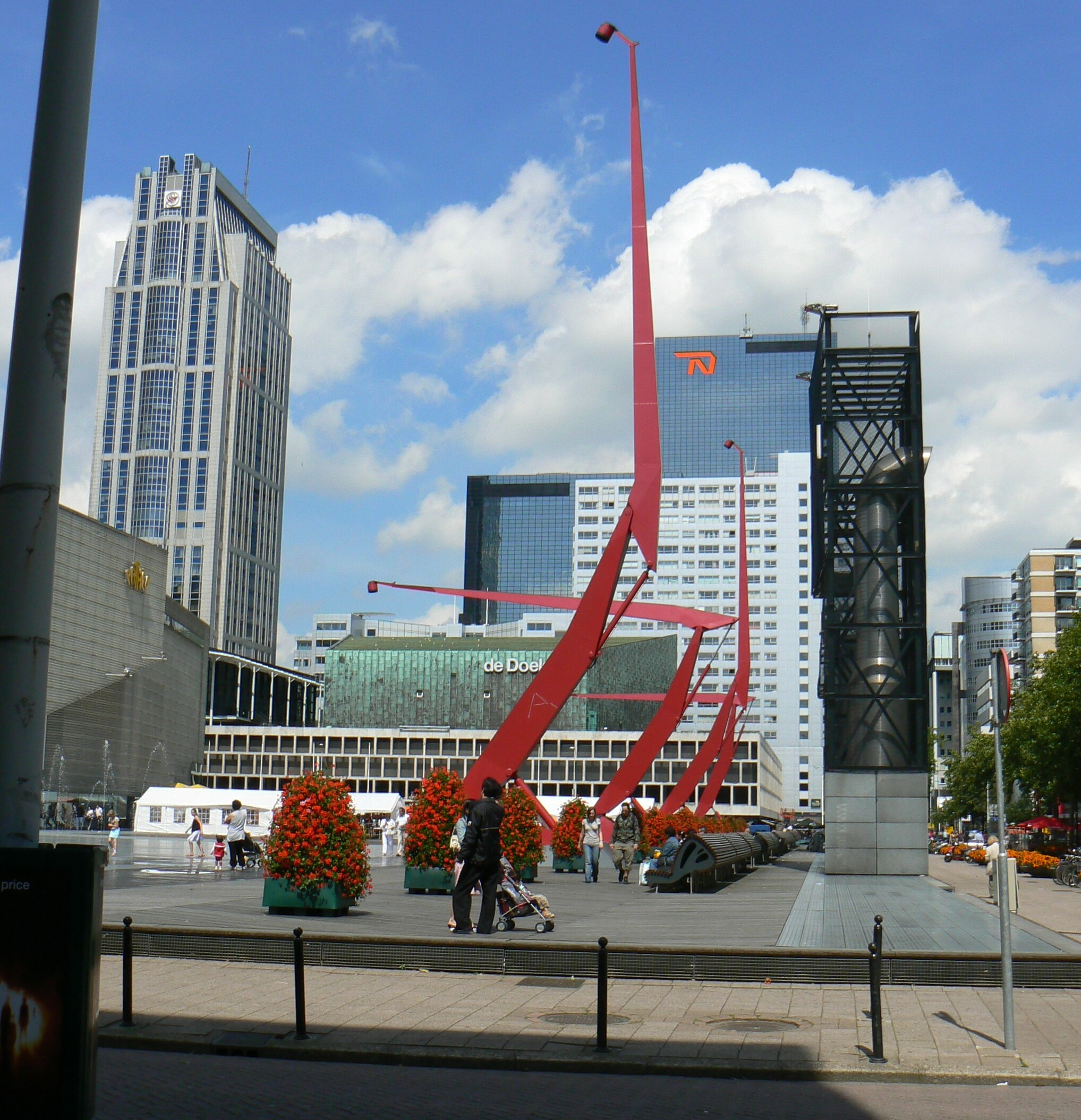 Kinetic art by Adriaan Geuze at the Schouwburgplein in Rotterdam/The Netherlands